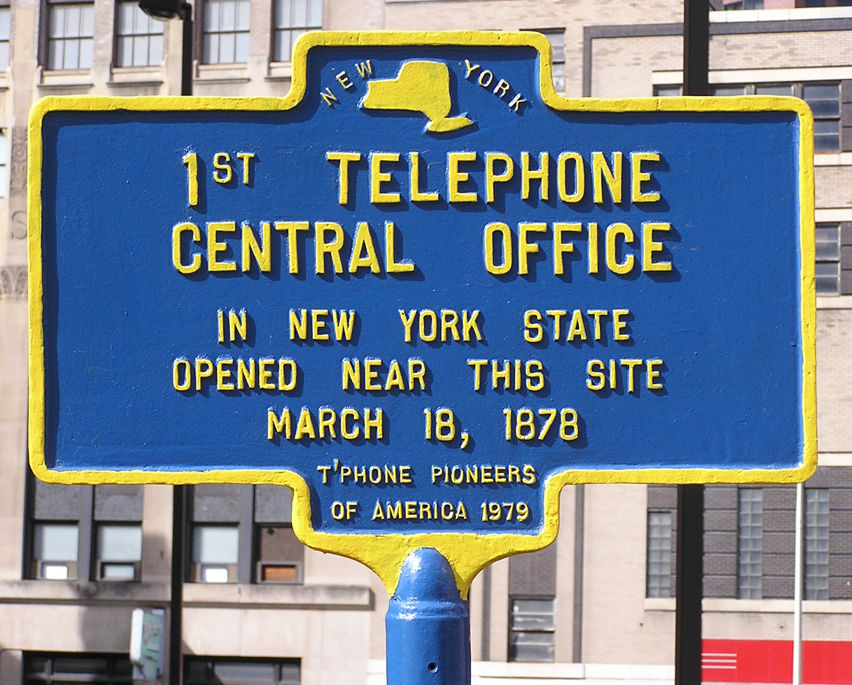 Historical marker located Broadway, Albany, New York N 42° 38' 58.76" W 73° 45' 2.22" Text: 1st Telephone Central Office In New York State Opened Near This Site March 18, 1878 T'Phone Pioneers of America 1979